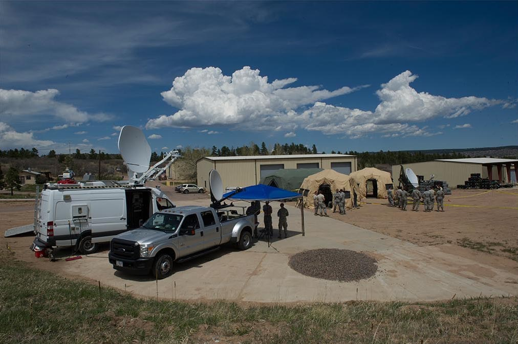 SCHRIEVER AIR FORCE BASE, Colo. -- Airmen of the 379th Space Range Squadron evaluate frequency spectrums within a virtual space range environment with L-3 Communications hardware during field training exercises May 6, 2017. The exercise took place at the United States Air Force Academy's Field Engineering Readiness Laboratory (FERL Village). (U.S. Air Force photo/Staff Sgt. Christopher Moore)